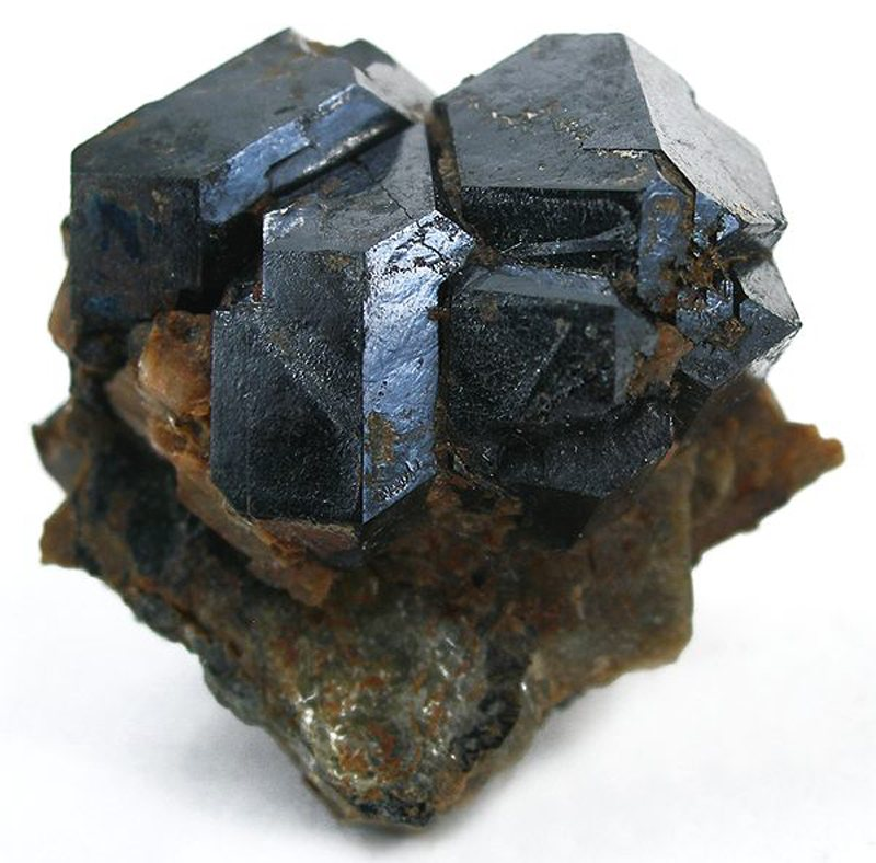 Uraninite Locality: Trebilcock Pit, Topsham, Maine Size: thumbnail, 2.7 x 2.4 x 1.4 cm Uraninite The "Trebilcock" uraninites found in the late 1970s represent the pinnacle of crystallized uraninite to most collectors. Specimens today are rare on the market. This sample features a dominant 1.5-cm-across crystal perched atop smaller ones on matrix! High competition-level quality specimen. ex. Ken Hollman Collection